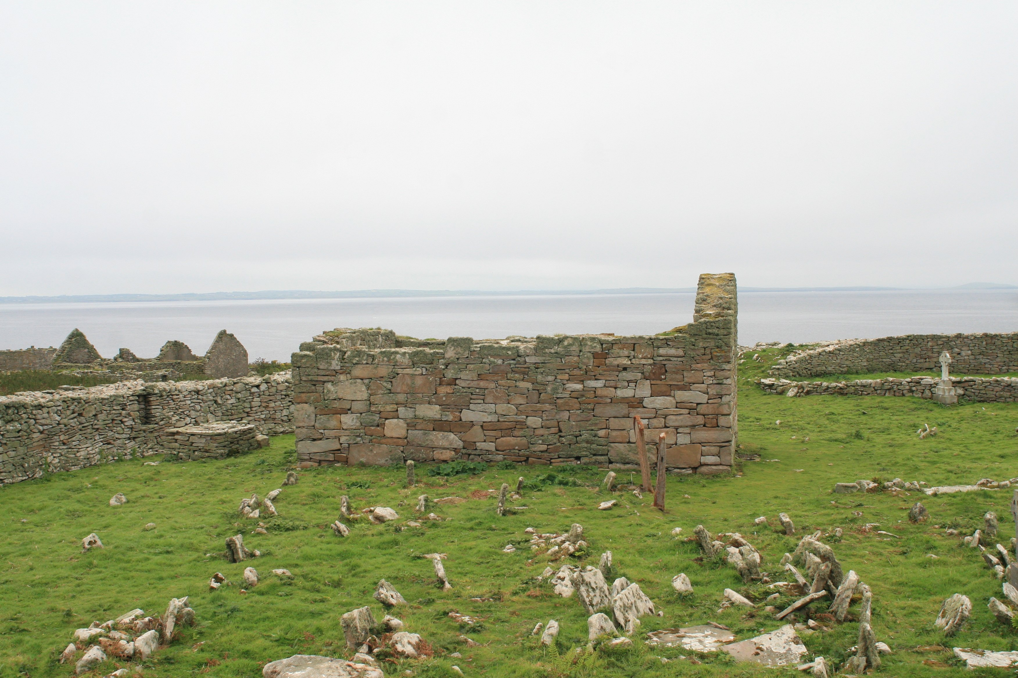 Inishmurray, County Sligo, Ireland North side of Teampall Molaise.